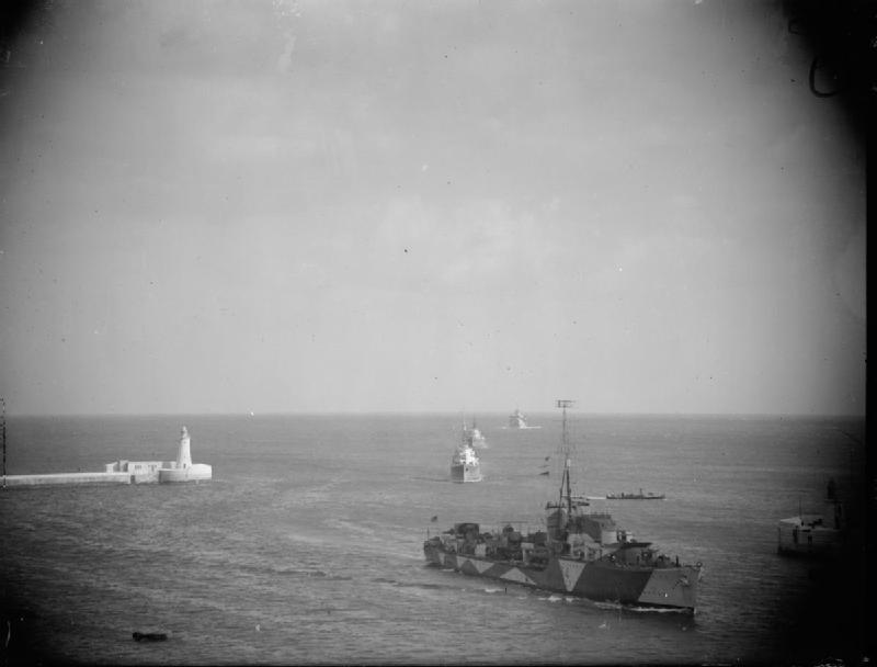 The Royal Navy during the Second World War HMS JAGUAR, in foreground, with convoy, entering Grand Harbour, Malta.